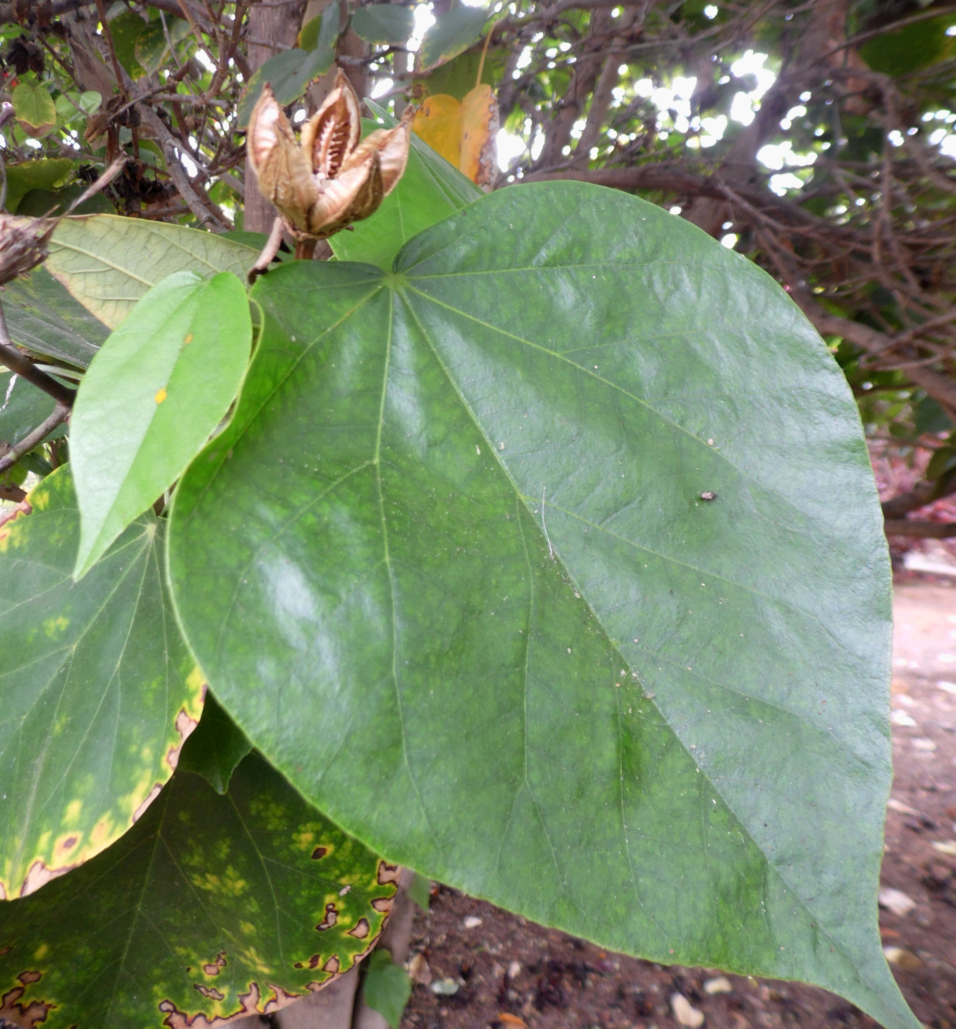 Hibiscus elatus in Parque Botánico de Maspalomas (Gran Canaria)